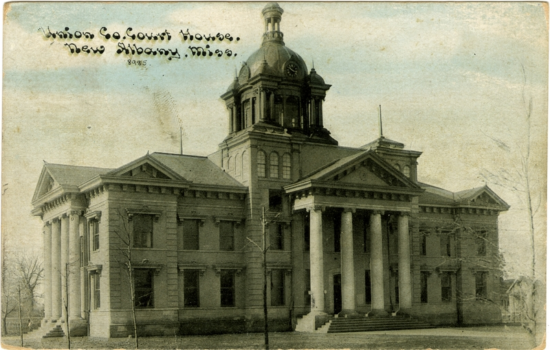 Union County Courthouse in New Albany, Mississippi